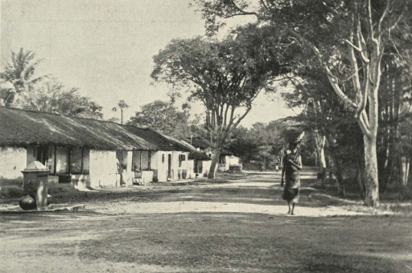 A typical bit of suburban roadway.